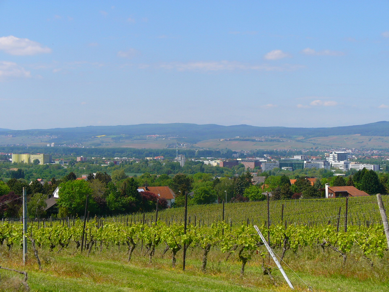 Boehringer Ingelheim